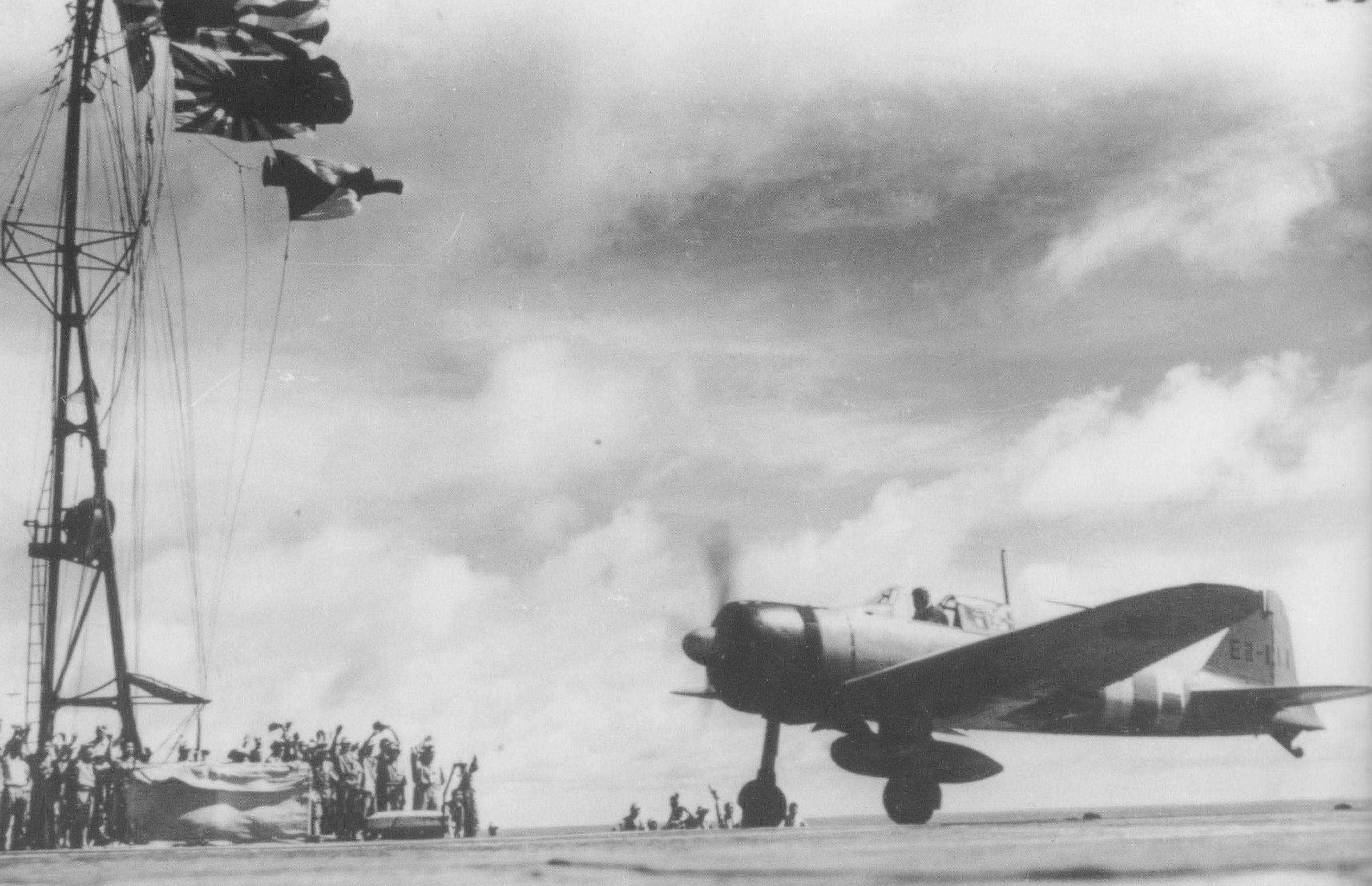 A Mitsubishi A6M2b Zero fighter aircraft EII-111 by from the Zuikaku Aircraft Group takes off during the attack on Pearl Harbor.